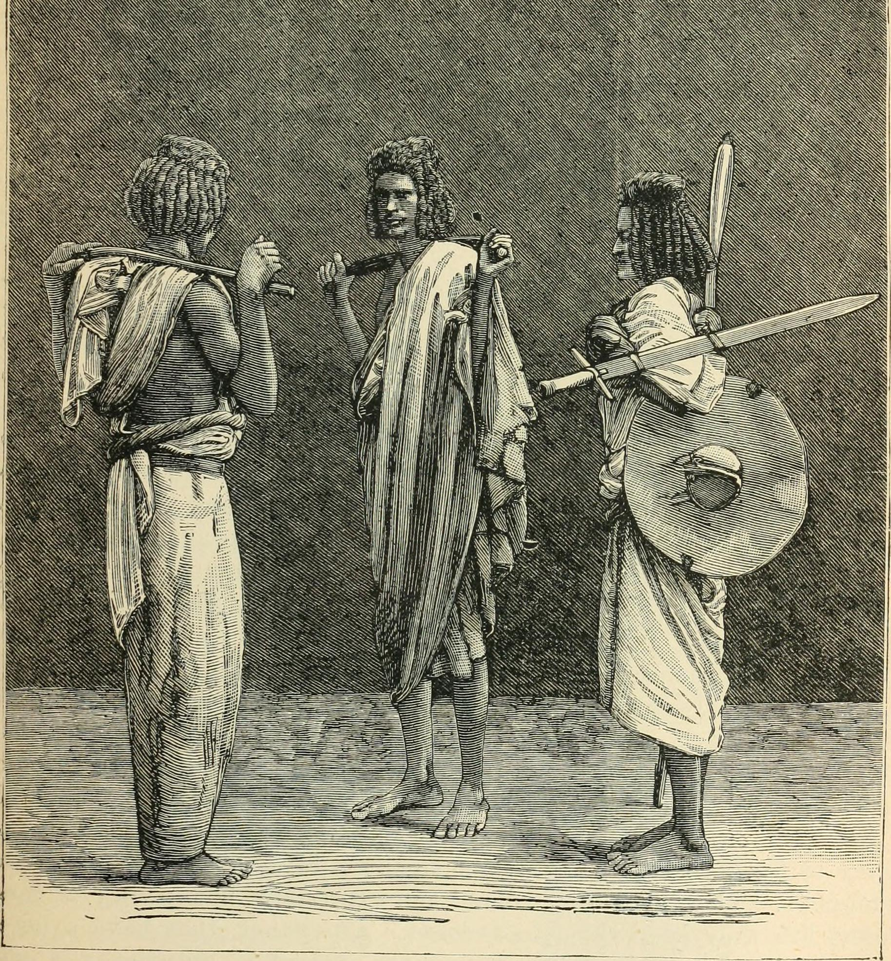 Title: The world's inhabitants; or, Mankind, animals, and plants; being a popular account of the races and nations of mankind, past and present, and the animals and plants inhabiting the great continents and principal islands Year: 1888 (1880s) Authors: Bettany, G. T. (George Thomas), 1850-1891 Subjects: Civilization Culture Publisher: London Ward, Lock Text Appearing Before Image: ^ or woolly hair, large but well-shaped lips, and large black eyes. The features are very regular, but the nose is larger THE NUBIANS AND ABYSSINIANS. 565 than in most negroes, although straight and strong-looking, while thecheek-bones are less prominent. Their teeth arevery white and small.They usually disfigure themselves with three oblique scars on each cheek ;and not unfrequently they voluntarily inflict wounds on themselves, asupposed means of curing diseases. Their dress is a tunic, and over it a blue cotton robe. Sandals are ^^^\ V \ v^- Text Appearing After Image: BENI AMER WAEEIOKS. r of course worn, and sometimes a turban. Most of them carry weapons,concealed if not openly, at least a knife or a dagger. The giidswear little beyond a girdle or apron decked with pearls, and ®^^sometimes with gold and silver ornaments. They wear nose-rings, andusually bits of wood in the lobes of their ears, replacing them when mar-I ried by gold or silver. The married women dress more completely, en- I; 566 THE INHABITANTS OF AFRICA. veloping themselves in a loose robe, and dress their hair as elaborately asis depicted on the Egyptian monuments, with regular curls_stiffened byfat and ochre, and sometimes covered with thick laj^ers of gum. The Nubian negroes are hard-working agriculturists, and in manyways superior to the Egyptians, being more self-dependent and self-de-jiorai fensive, and honest and cheerful. Many of them have emi-character. grated to Egypt, and have taken service in Cairo as porters,domestic servants, artisans, etc. These rising emigrants can